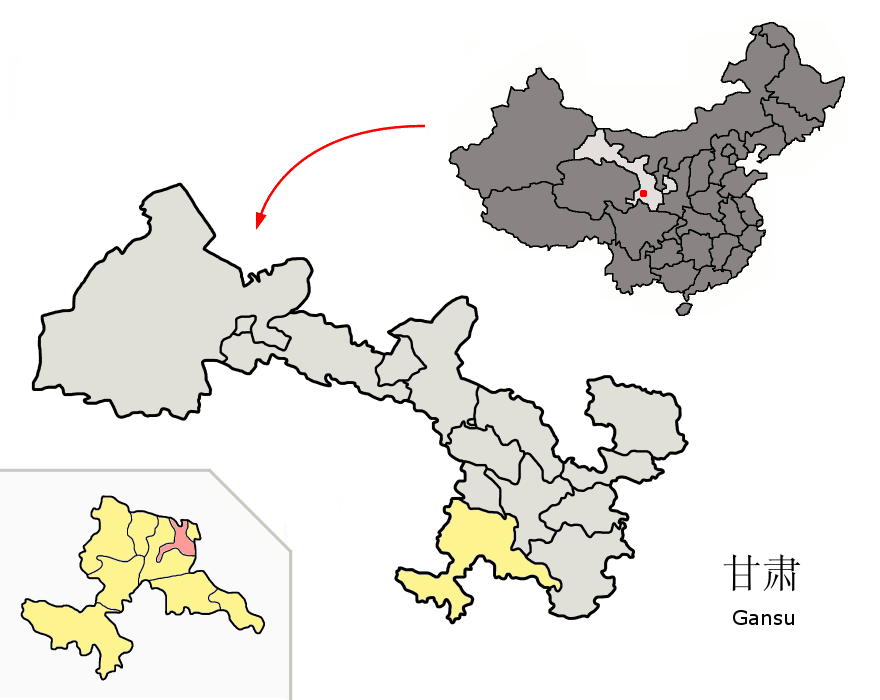 Location of Lintan County (pink) and Gannan Prefecture (yellow) within Gansu province of China Map drawn in september 2007 using various sources, mainly : Gansu province administrative regions GIS data: 1:1M, County level, 1990 Gansu Counties map from